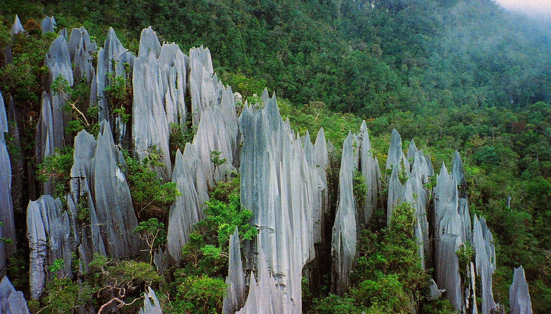 Pinnacles at Mulu, Gunung Mulu National Park, Borneo